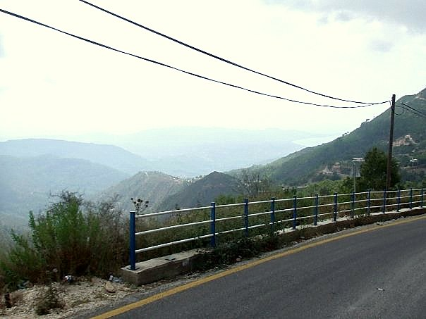 The heights of Mount Sildran, on the Ekizolukh (Nab'ain) - Baghjaghaz (al-Mushrifeh) road, Kessab, Latakia Governorate, Syria.